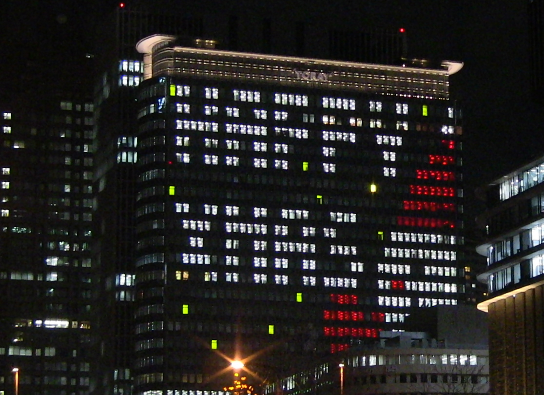 Happy XMas, Nakanoshima Mitsui Building, Osaka 2012